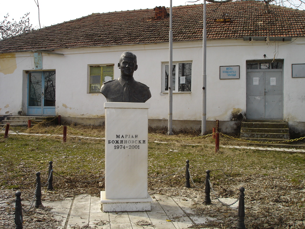 Monument of Marjan Bozhinovski, Macedonian policemen killed in 2001 in the village of Ivanjevci